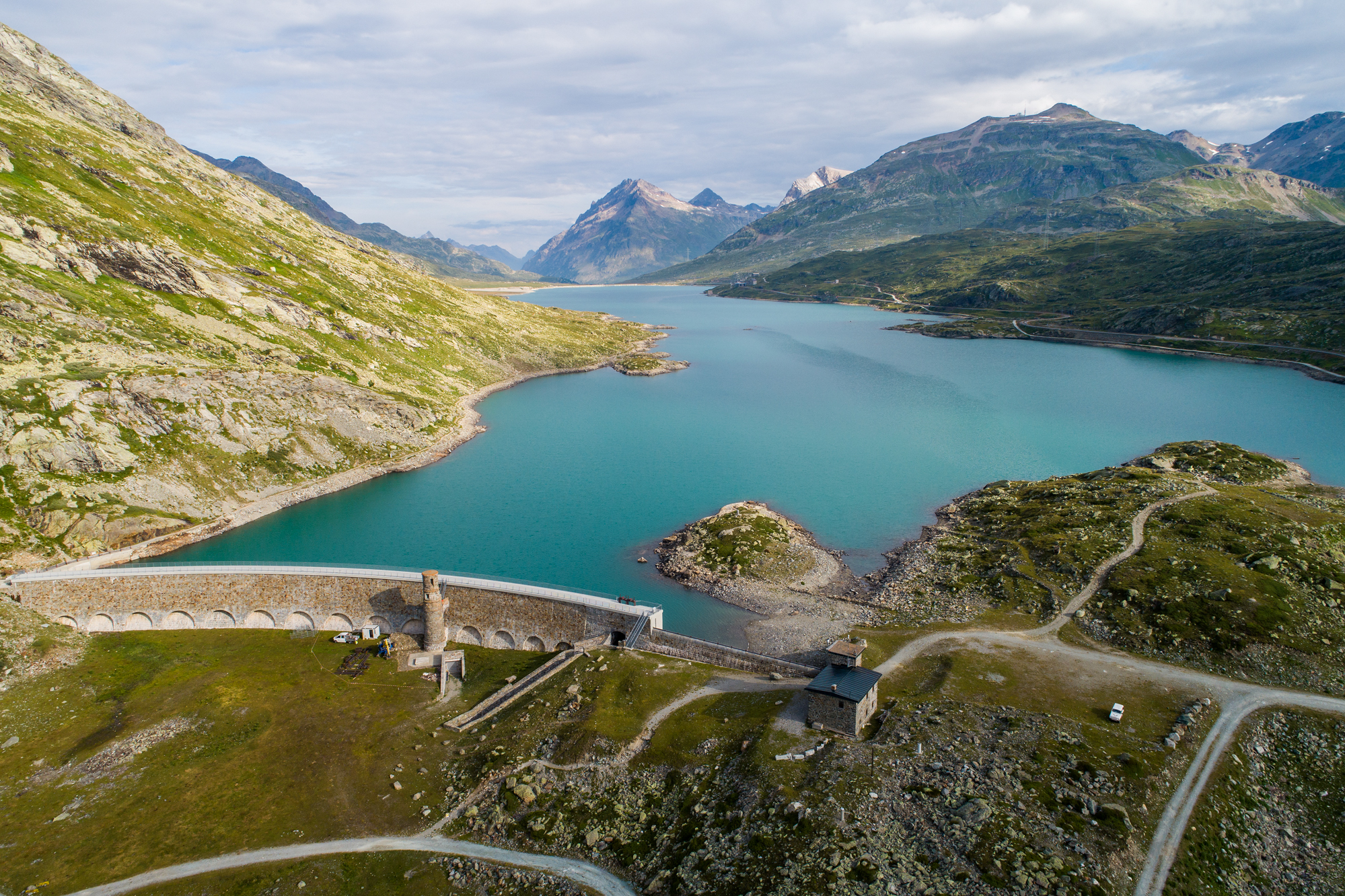 Lago Bianco, Staumauer Scala (Südmauer) Poschiavo, 05.08.2019, Repower am Donnerstag, 05. August 2019 (Nicola Pitaro)